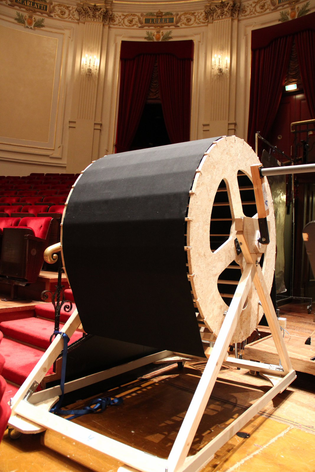 Windmachine of the VU-Orchestra Amsterdam, constructed in 2012, in the Royal Concertgebouw.